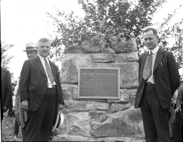 Dedication of the Pennsylvania historical marker for the York Imperial apple, caption read "Image of marker dedication, Credit: Courtesy: The Pennsylvania State Archives, In 1920 the State Horticultural Society of Pennsylvania dedicated a historical marker to the York Imperial Apple, at the site of Jessop's farm, for its contribution "to the horticultural prosperity of the state."